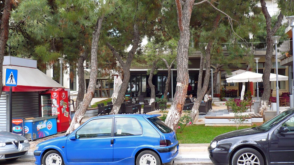 The Picture depicts the square of the Municipality Hall at Spata.